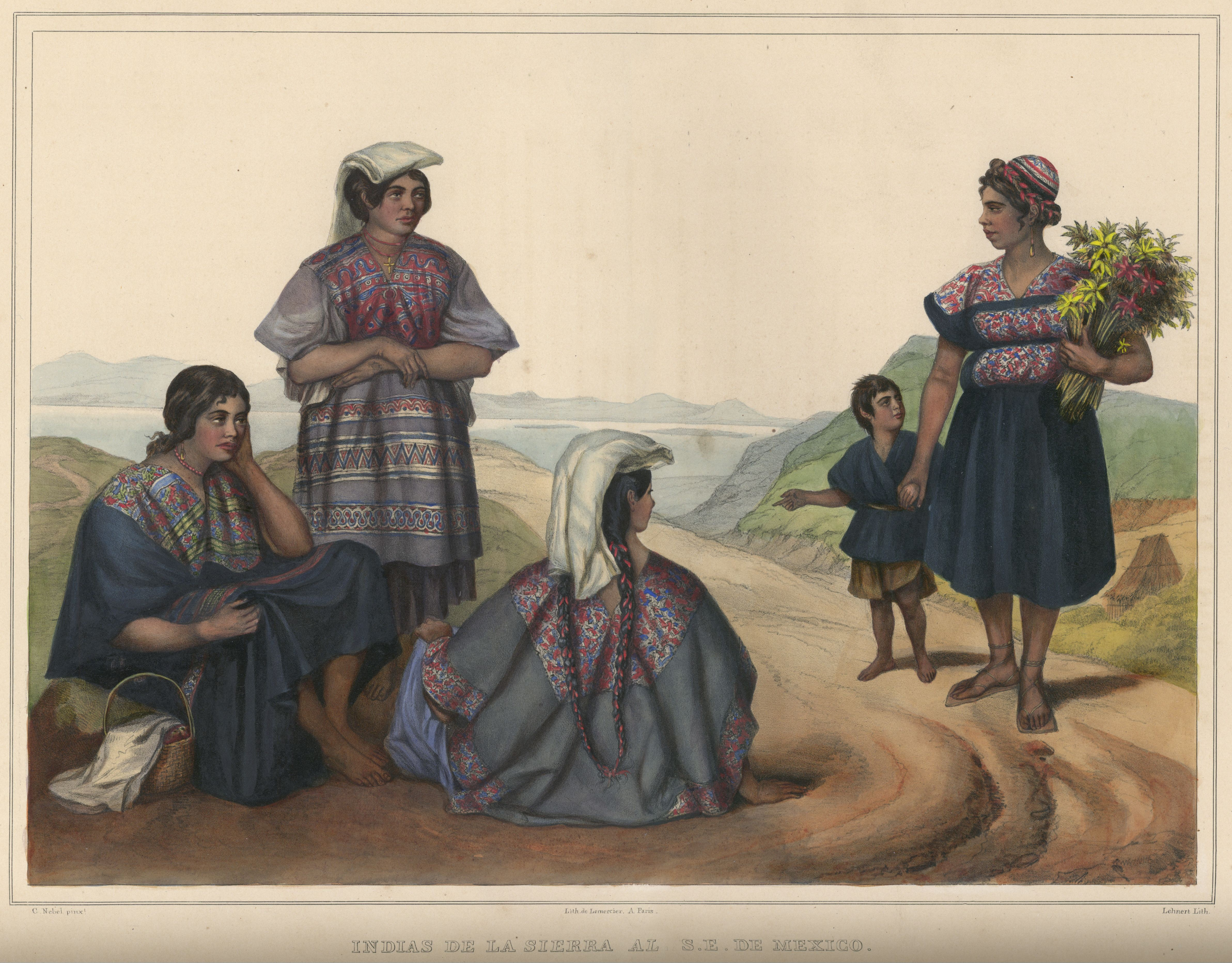 Indias de la Sierra al S. E. De Mexico. Costume group. Hand-colored lithograph highlighted with gum arabic. Original size (neat lines): 39.5×29.2 cm.